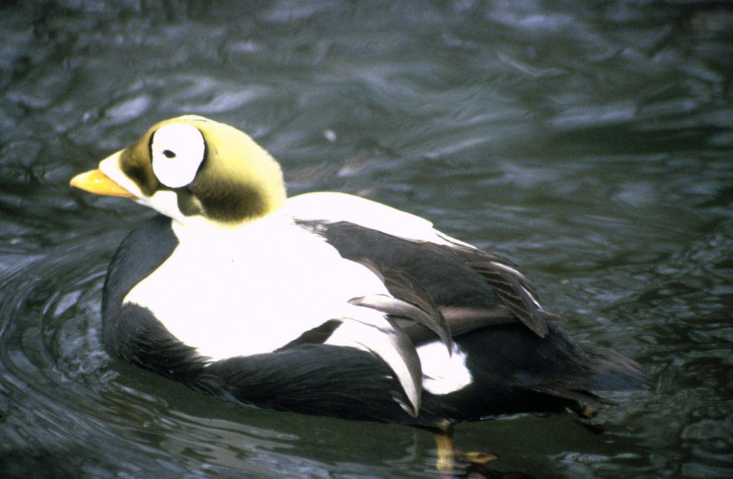 Spectacled Eider (Somateria fischeri), male